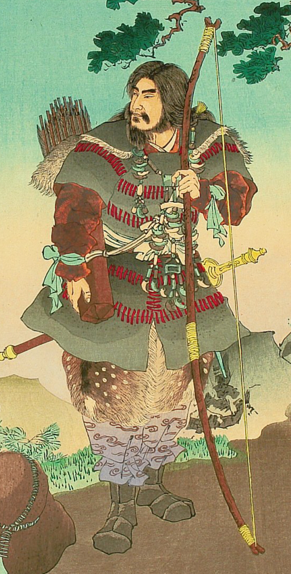 Detail of Emperor Jinmu - Stories from "Nihonki" (Chronicles of Japan), by Ginko Adachi. Woodblock print depicting legendary first emperor Jimmu, who saw a sacred bird flying away while he was in the expedition of the eastern section of Japan.